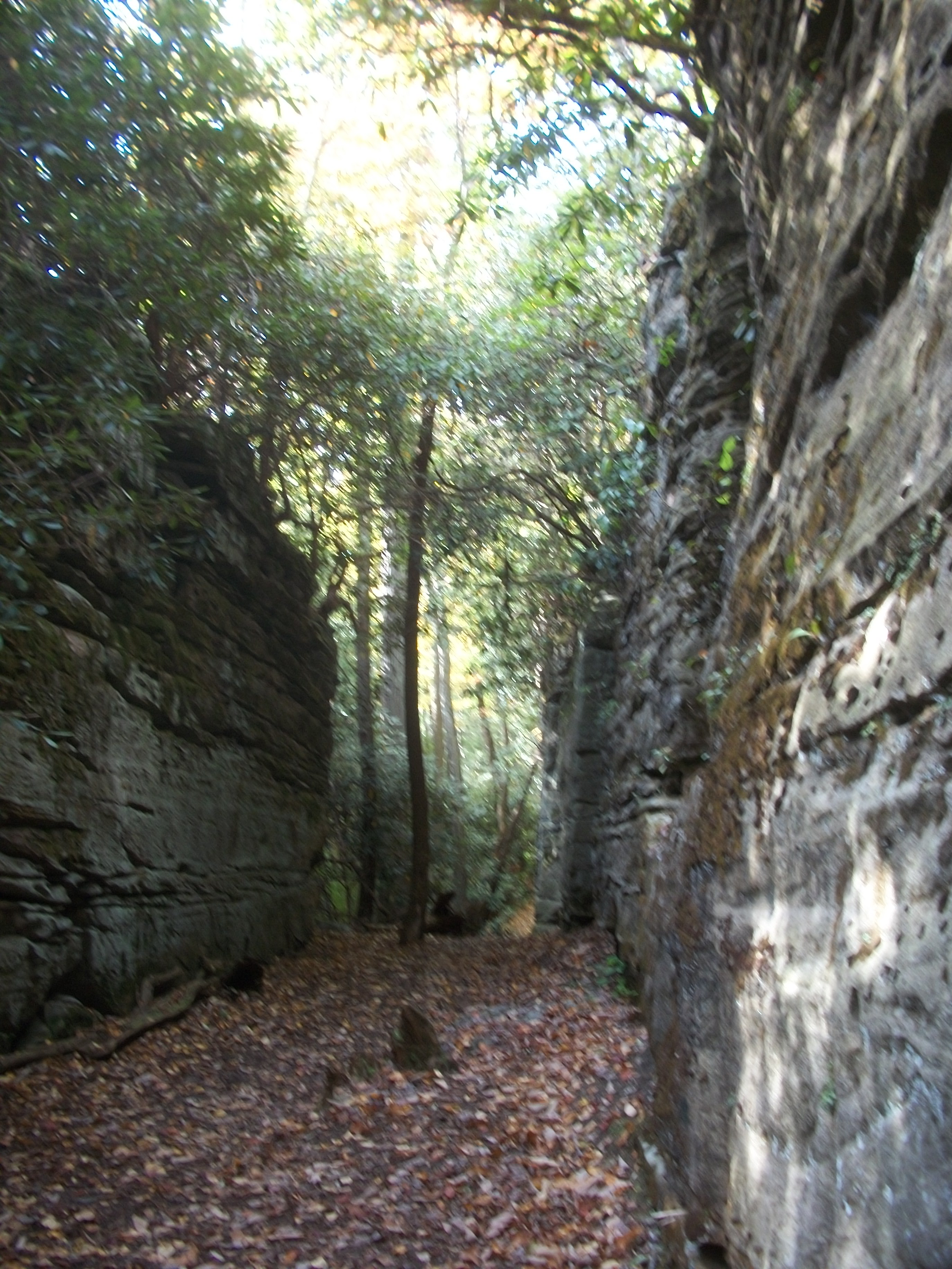 View of Rock City at Coopers Rock State Forest.